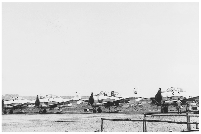 T-28s in Bunia, Congo. They were flown by CIA-hired Cuban pilots against the Simba rebels.